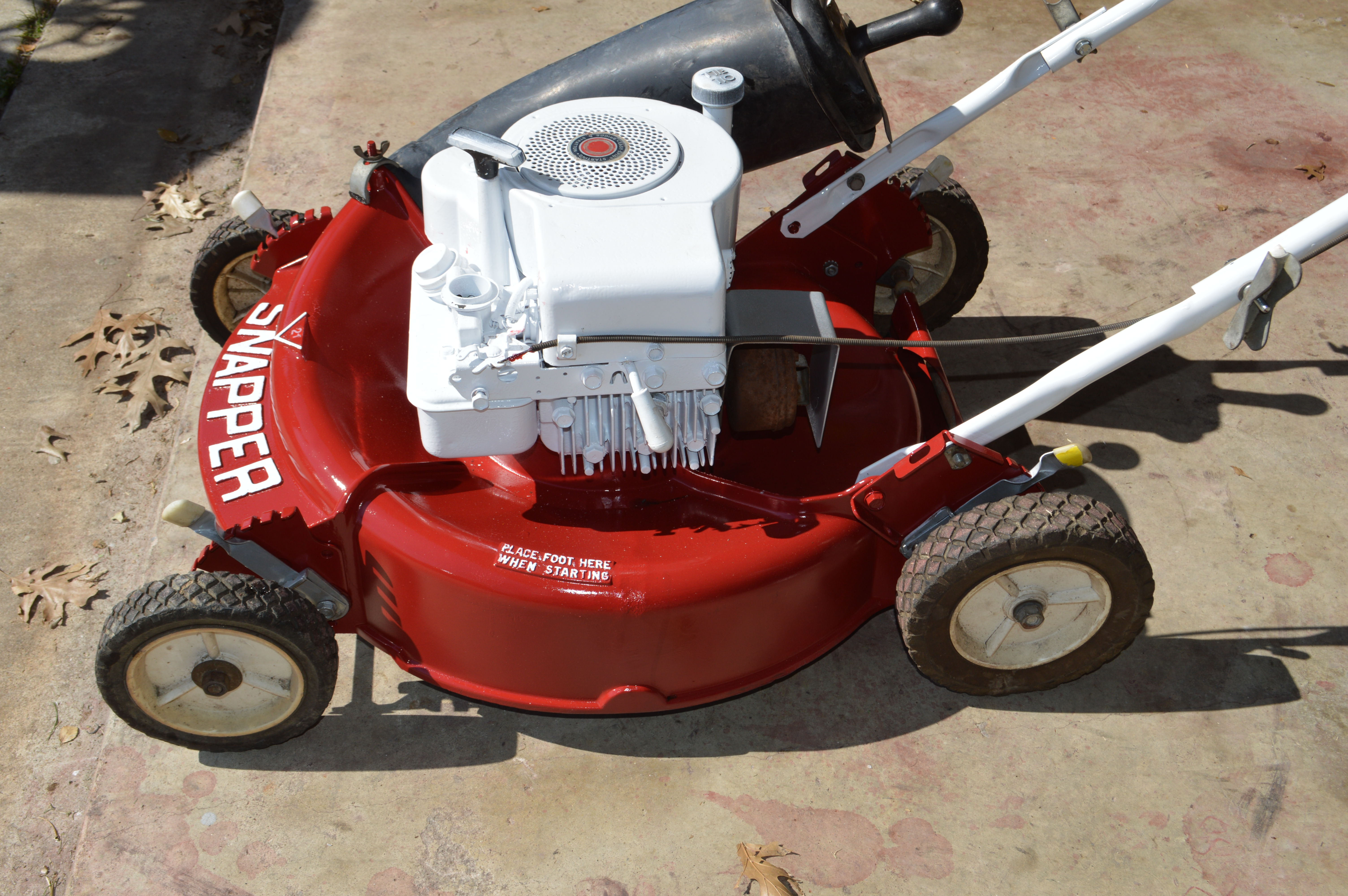 70's Snapper with Aluminum deck